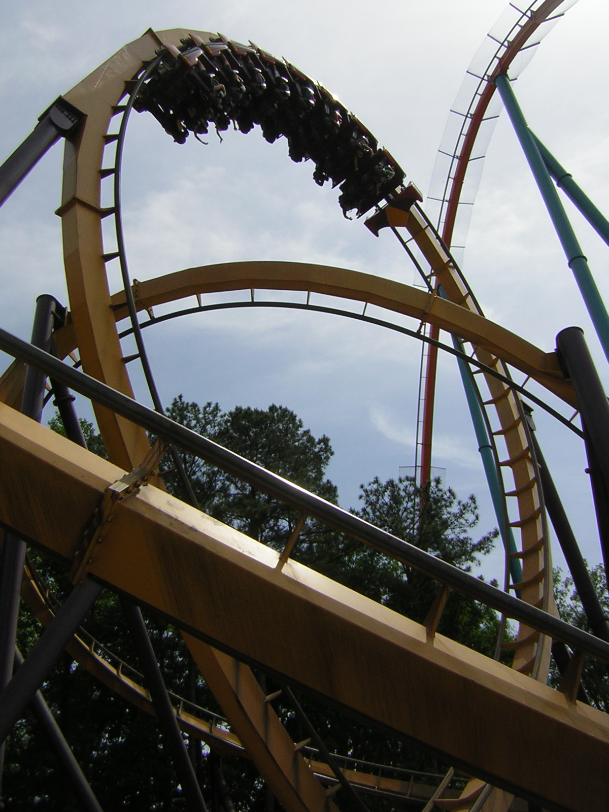 A shot of the vertical loop inversion taken from outside the park.